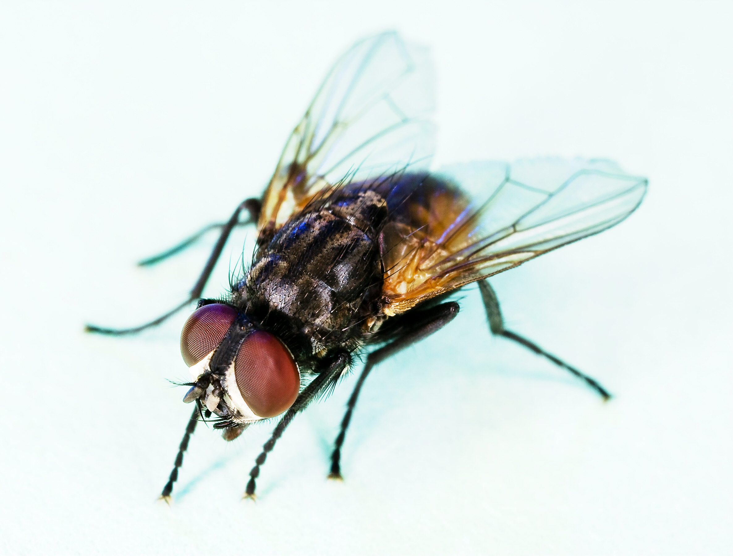 Common house fly, Musca domestica.